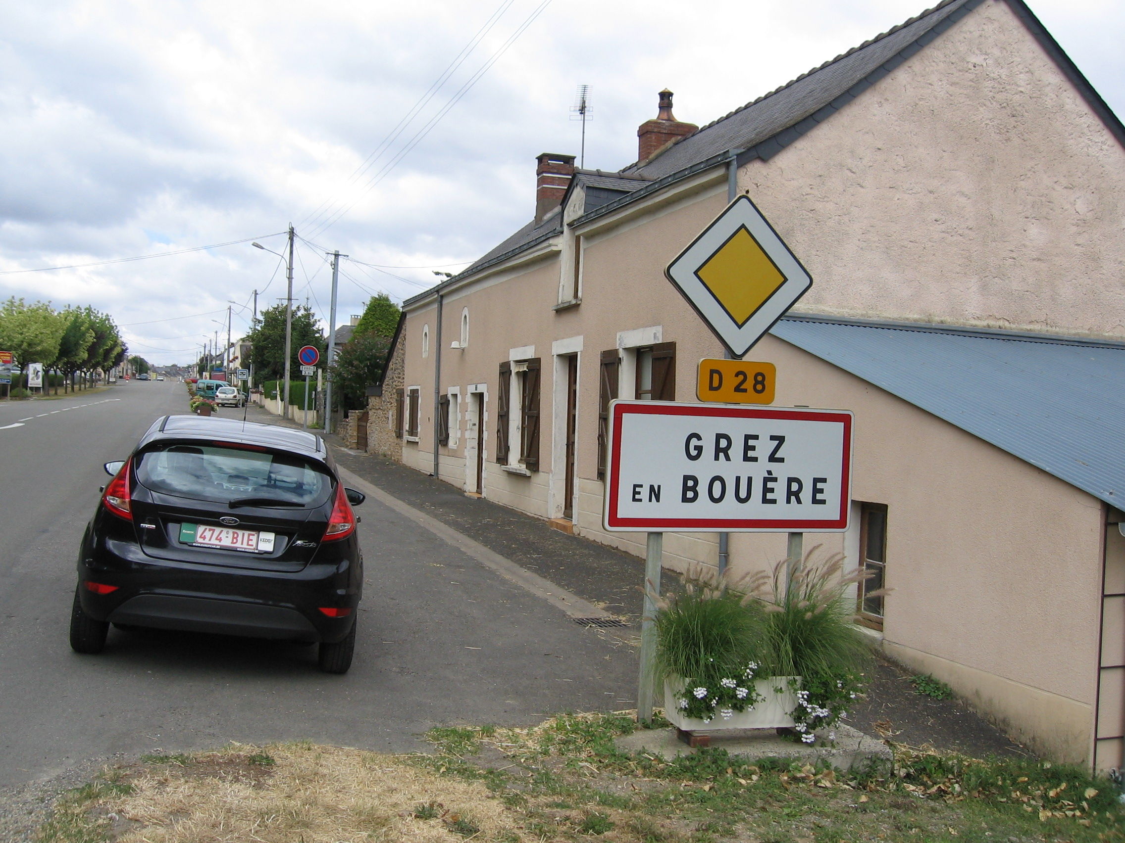 Entering into Grez-en-Bouère (France)